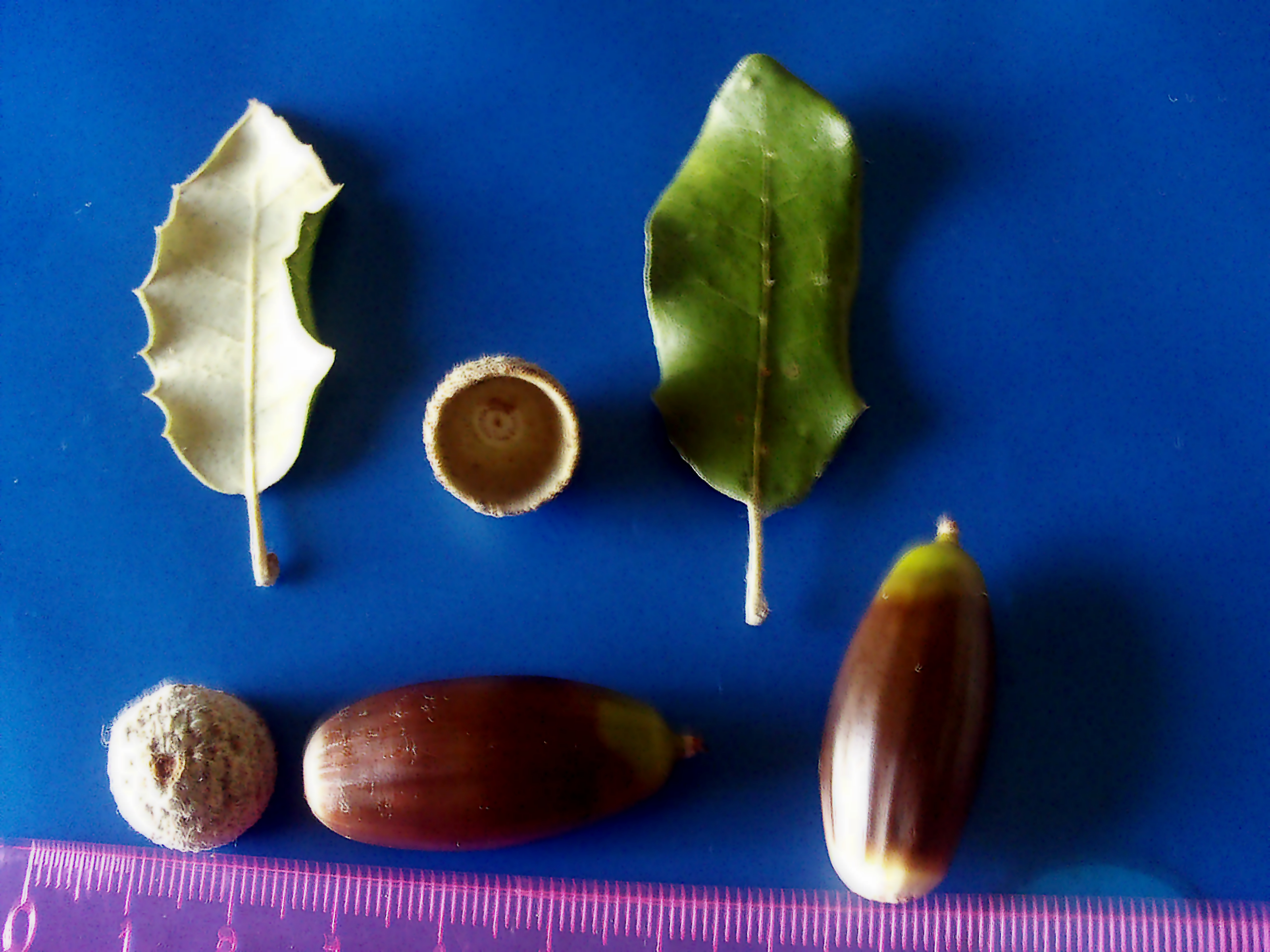 Quercus ilex subp. ballota var. 7 acorns and leaves — Dehesa Boyal de Puertollano, Spain